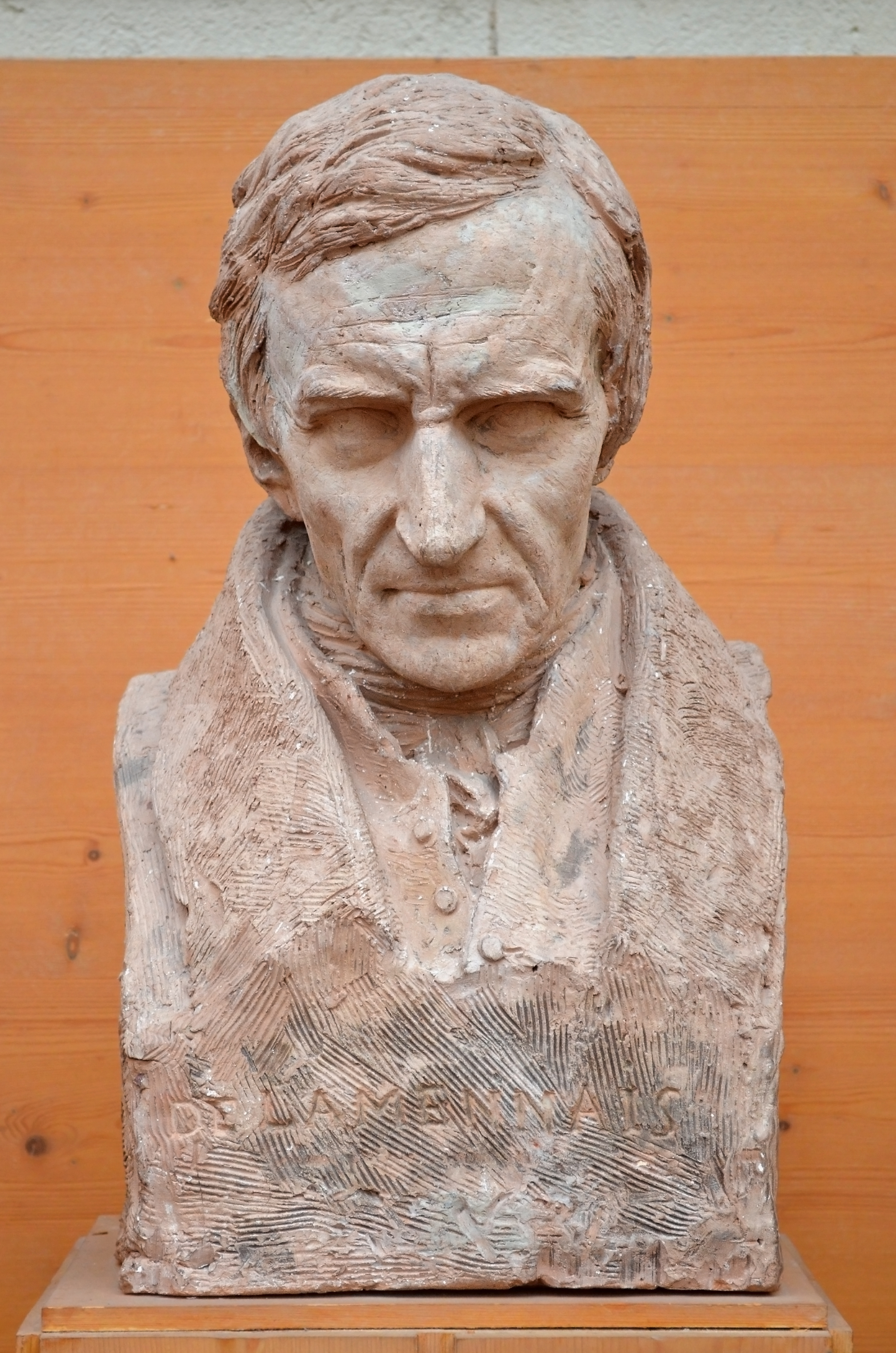 Bust of Hugues Felicité Robert de Lamennais by french sculptor David d'Angers (1839). Exhibited in David d'Angers gallery, Angers, France